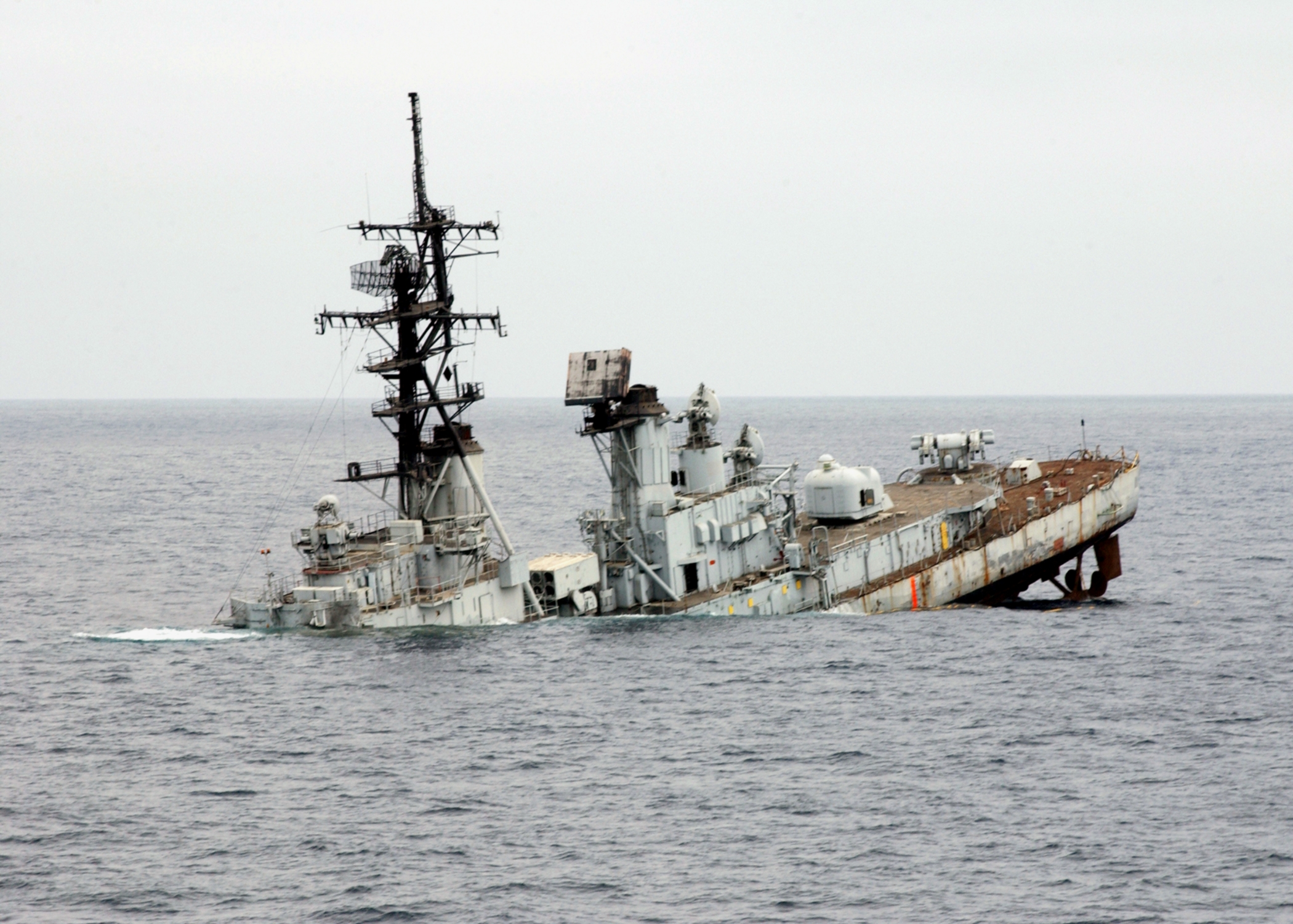 The decommissioned guided missile destroyer USS Towers (DDG-9) slowly sinks in the Pacific Ocean after being used as a target hulk for live-fire sinking exercises (SINKEX) on 9 October 2002. The decommissioned ships are first made environmentally safe prior to towing and sinking in safe waters off prospective coastlines. Ultimately, Towers serves as a man-made reef for marine life in the area.